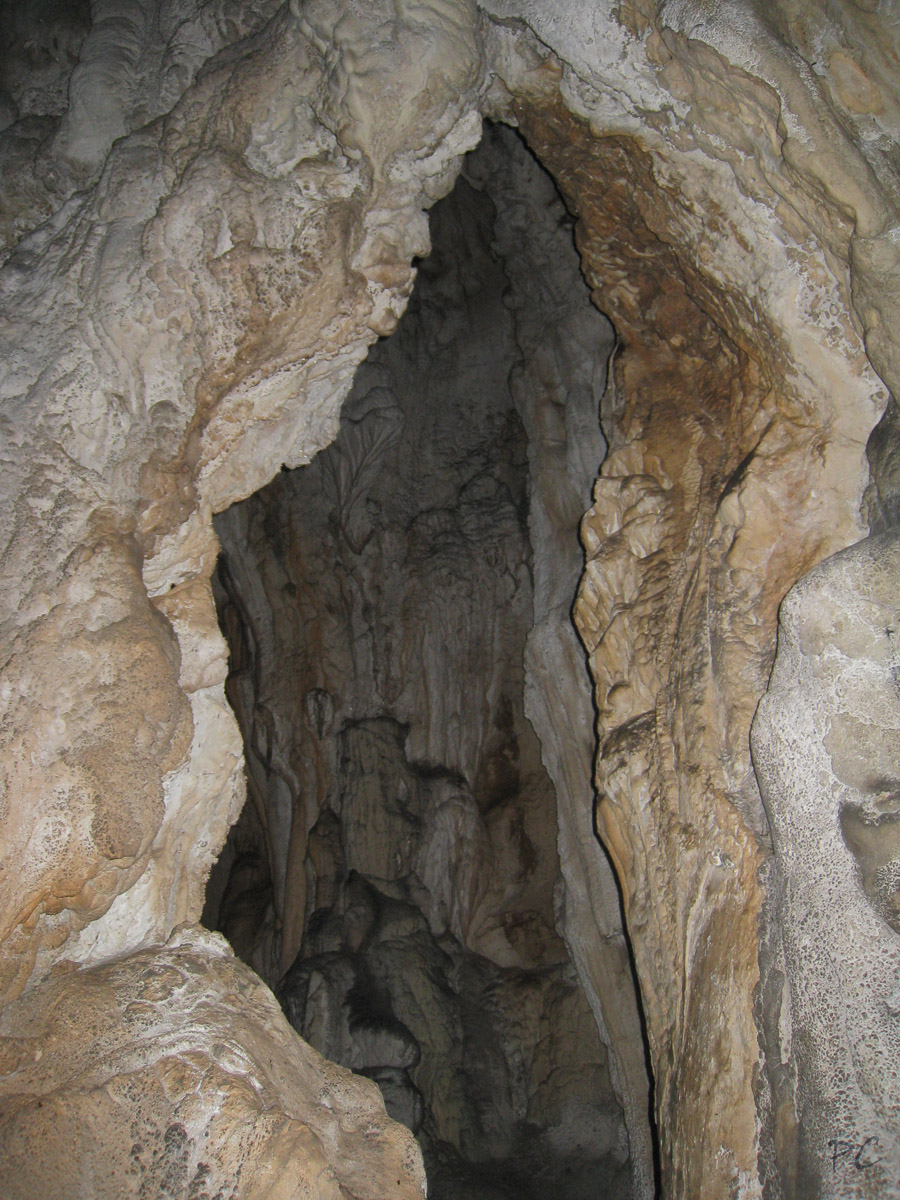 The Eggs cave.